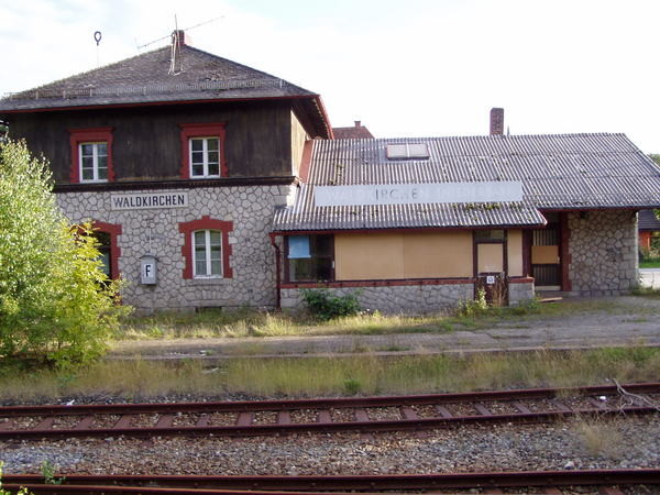 Waldkirchen (Lower Bavaria) station on the Ilztalbahn from Passau to Freyung, Bavaria, Germany.